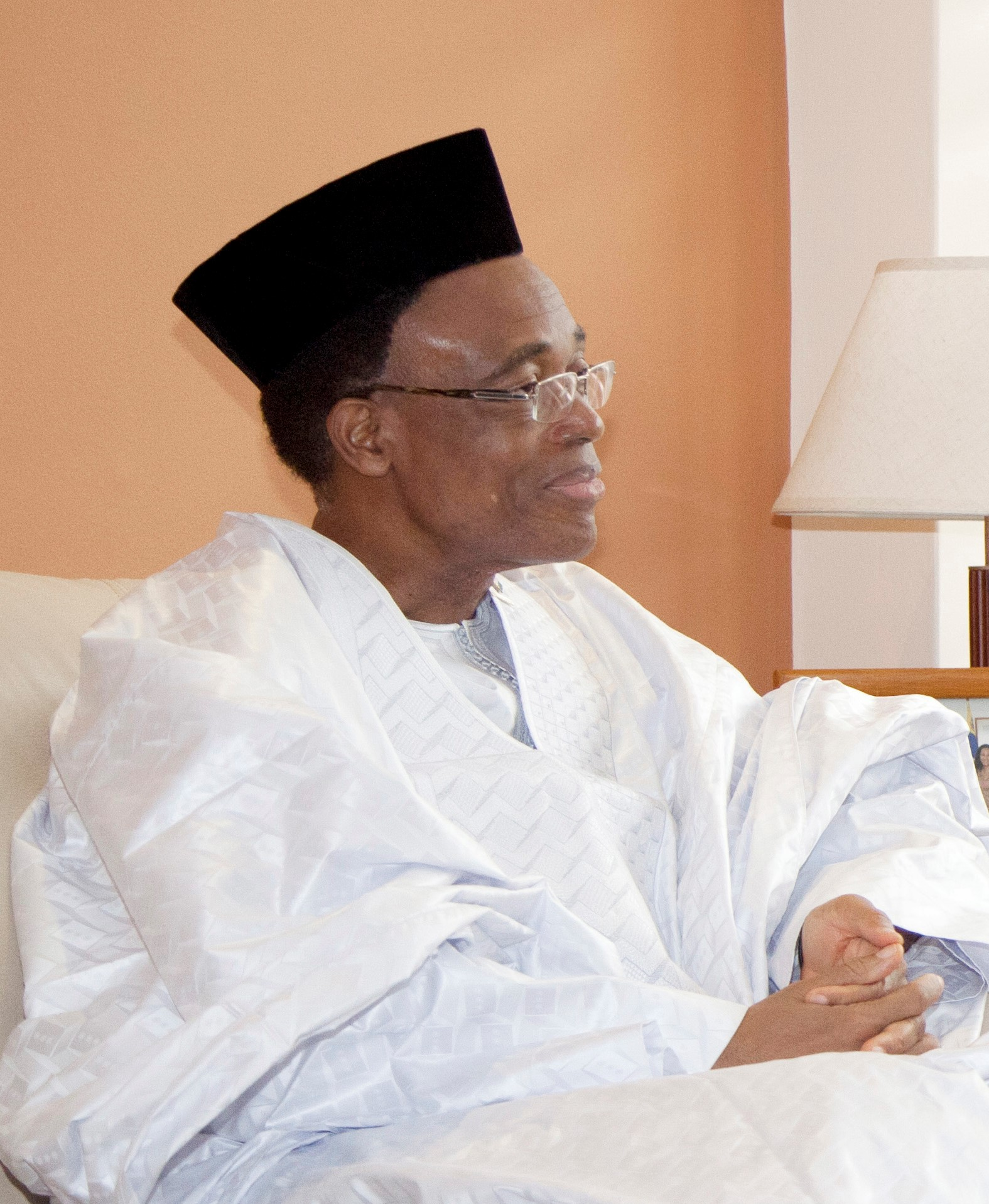 Martin Uhomoibhi, of Nigeria. Photo: Nina Zambrano Díaz.